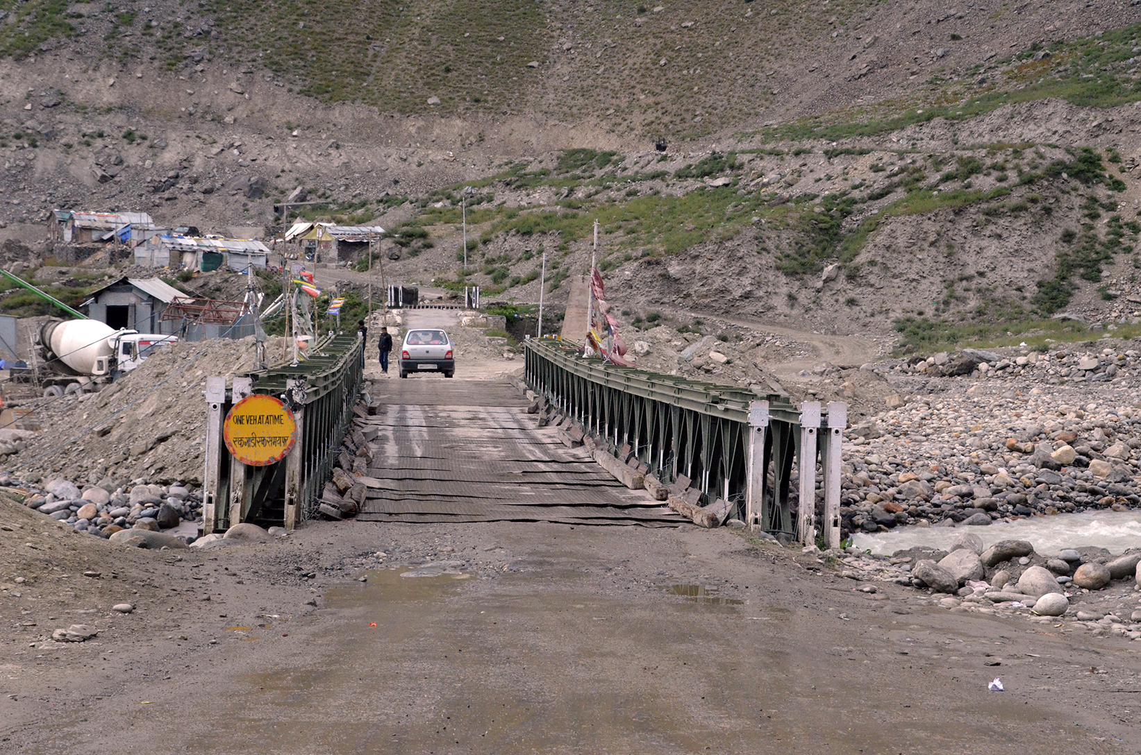 Bridge at Darcha across Jankar Nalah